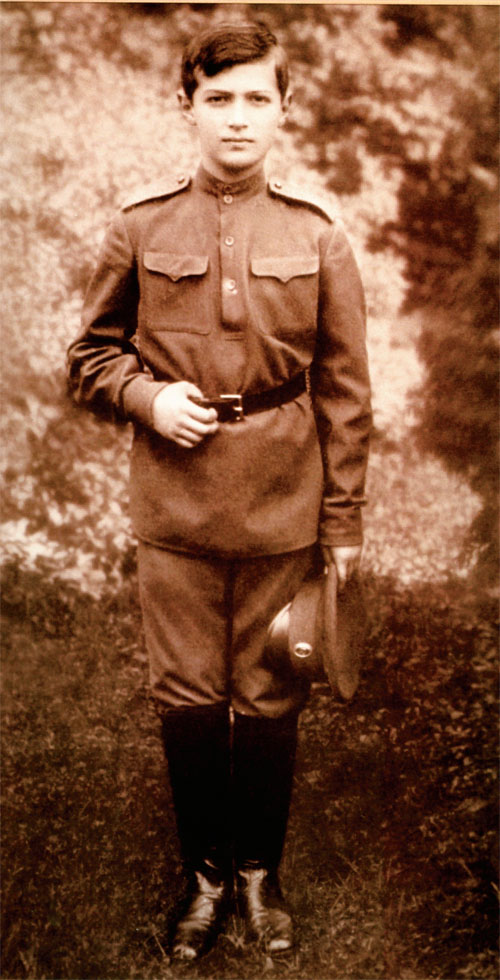 Russian Army Corporal Alexei Romanov